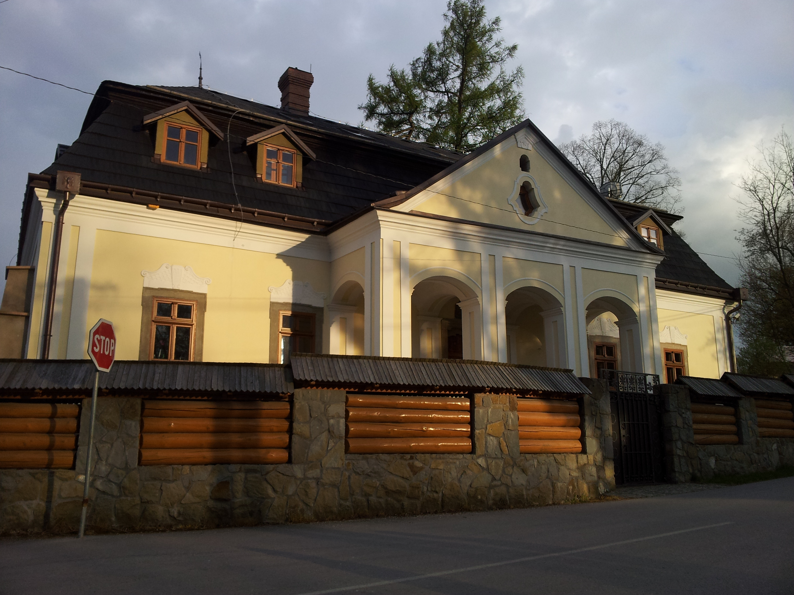 Baroque-classicist manor of Rakovský family, Rakovo, Slovakia.